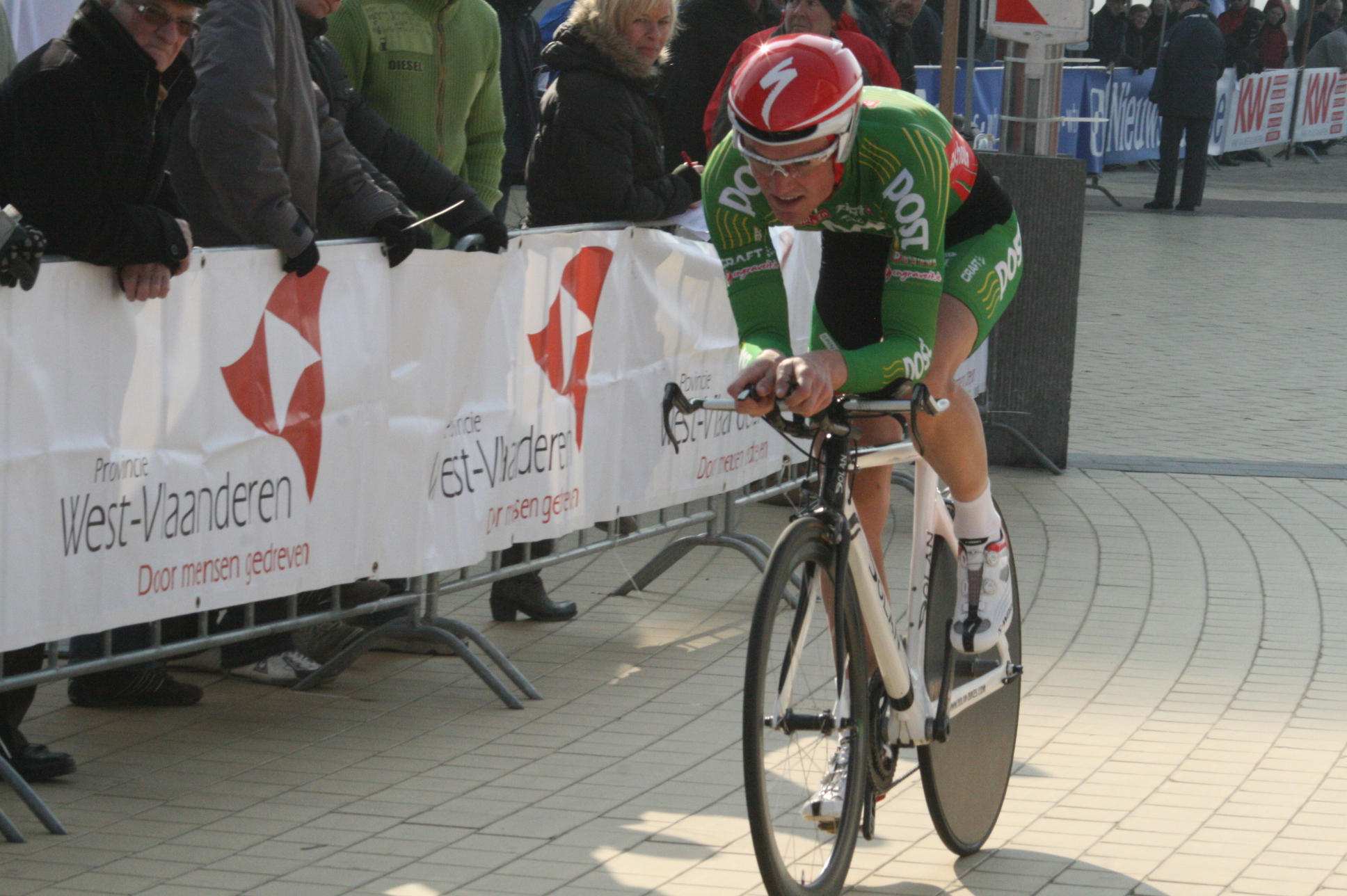 Andrew Fenn